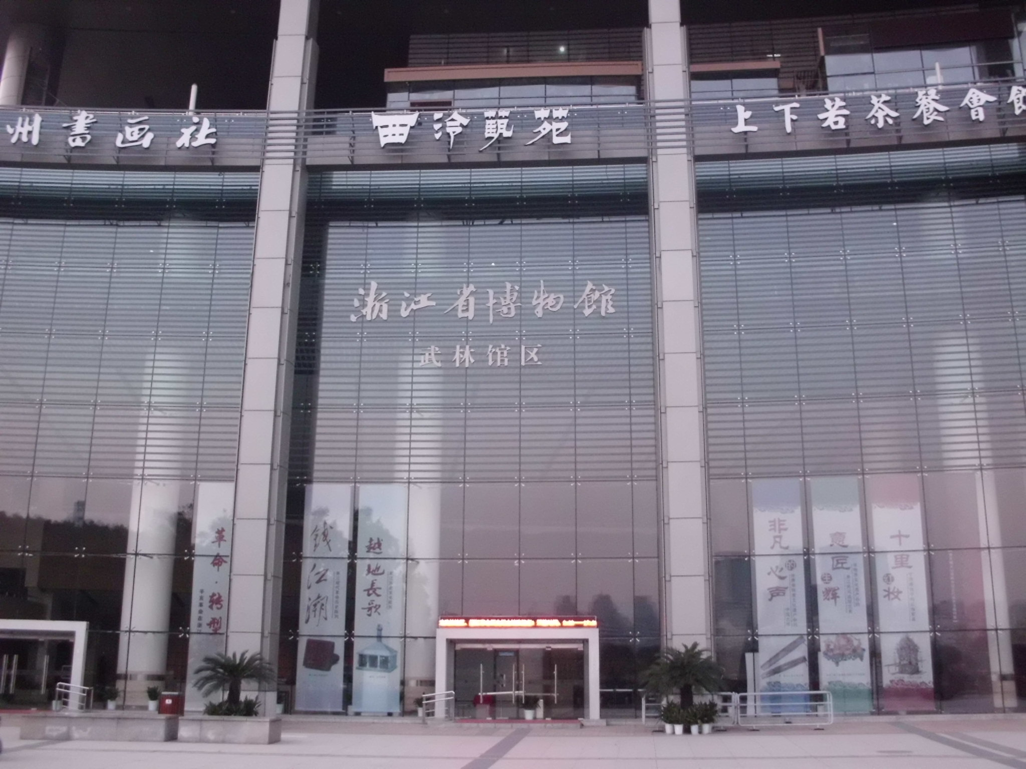 Westlake Cultural Square